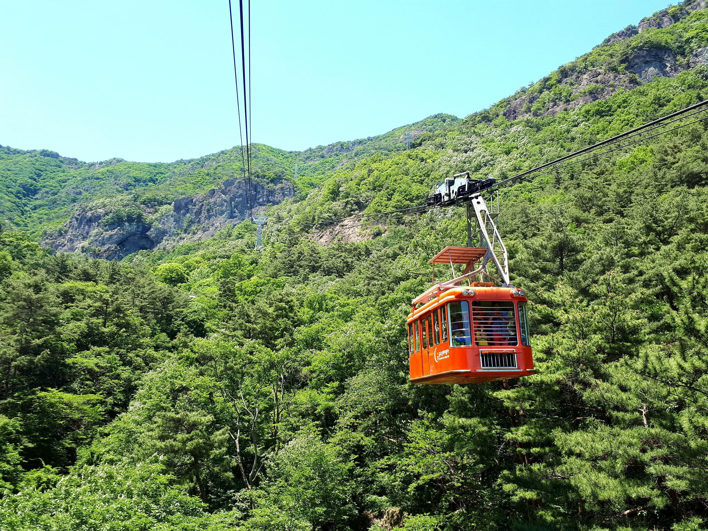 Guemo mountain cable car